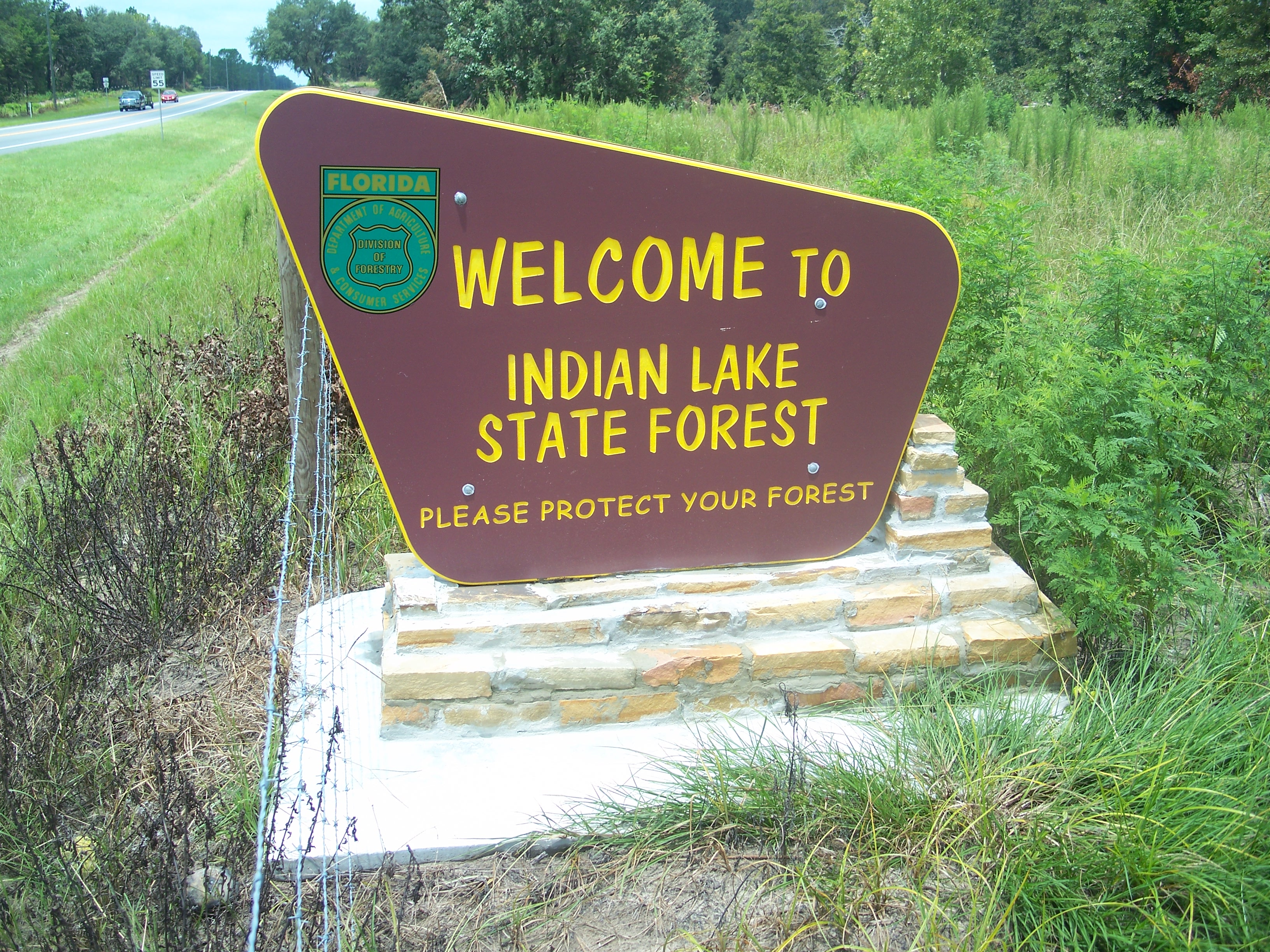 Ocala, Florida: Sign for the Indian Lake State Forest